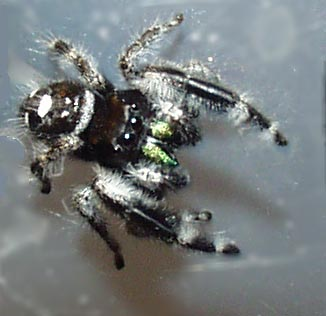 Phidippus species, probably workmani but possibly audax. Photographed 26 November 2005 in central North Carolina, USA by Patrick Edwin Moran